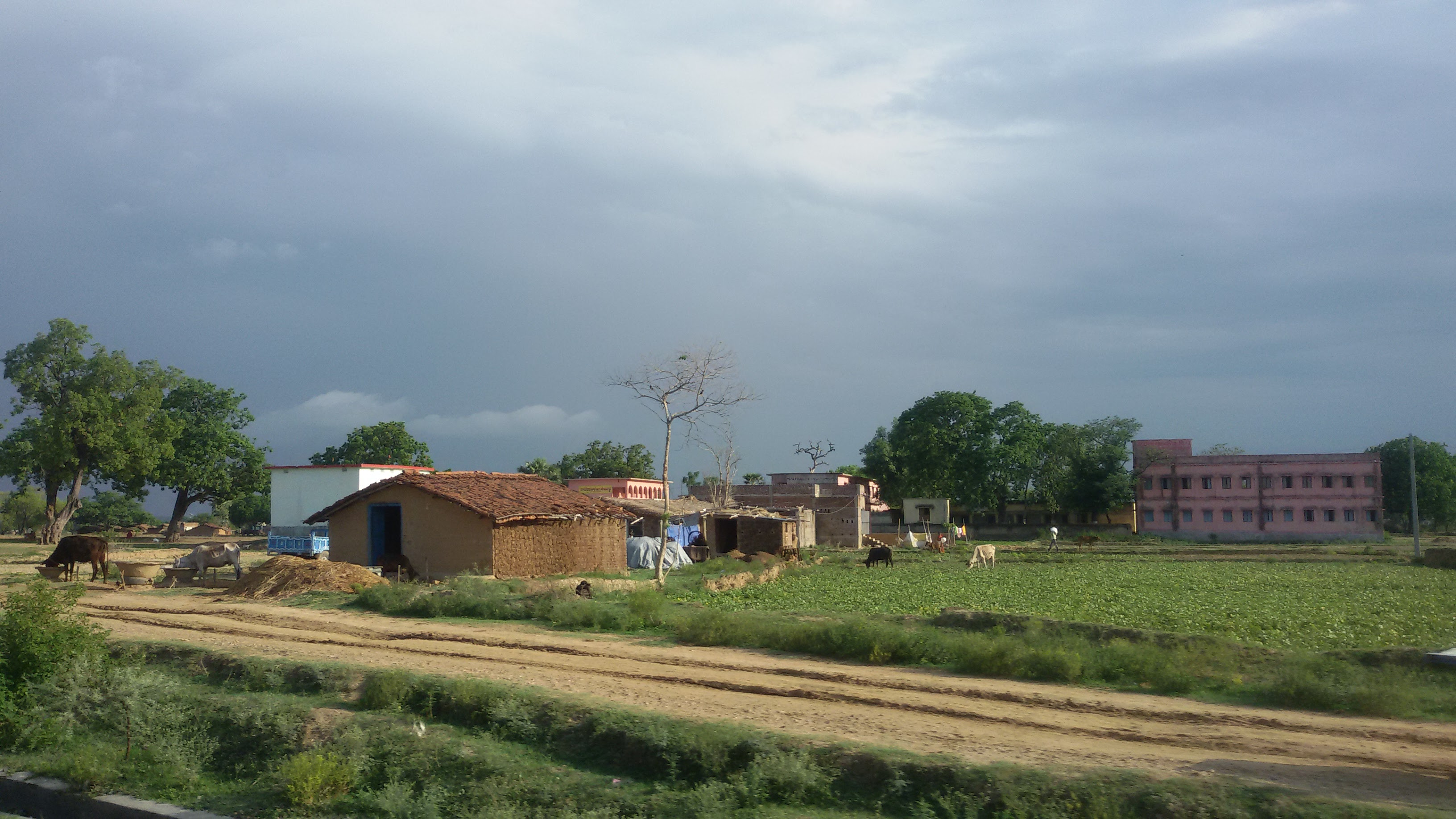 This picture has been taken outside from village. This is not main village area which is describing fields and side view of some homes. This shot is taken from Shivalapar (Shiv Temple).